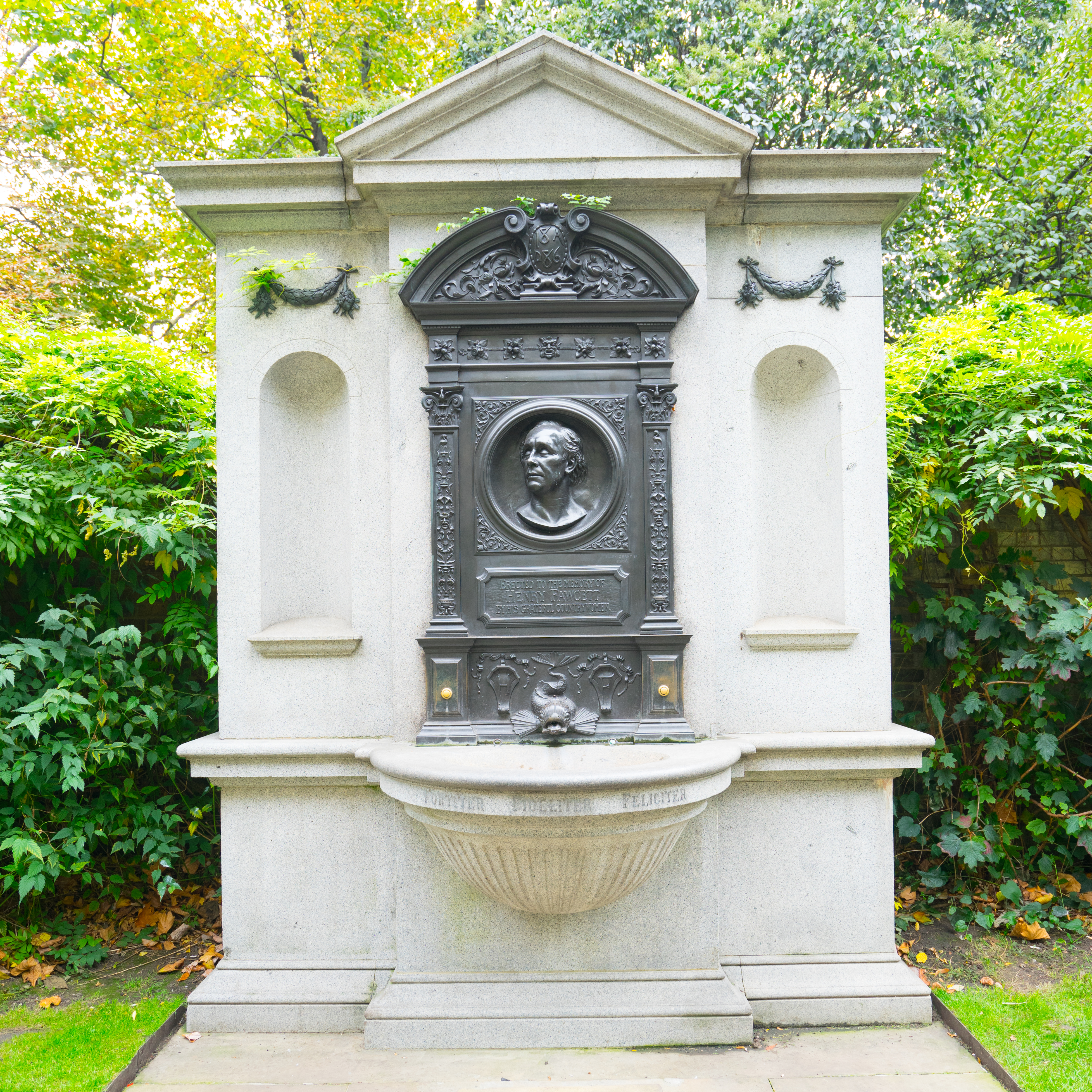 Henry Fawcett, Victoria Embankment, London